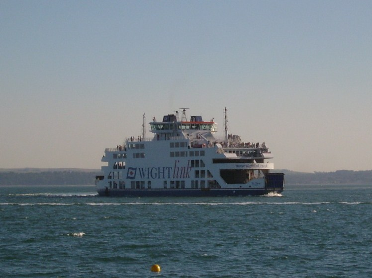 Wightlink MV St Clare IMO Number: 9236949 MMSI Number: 235002514 Callsign: ZNNR5 Length: 81 m Beam: 18 m My own work.